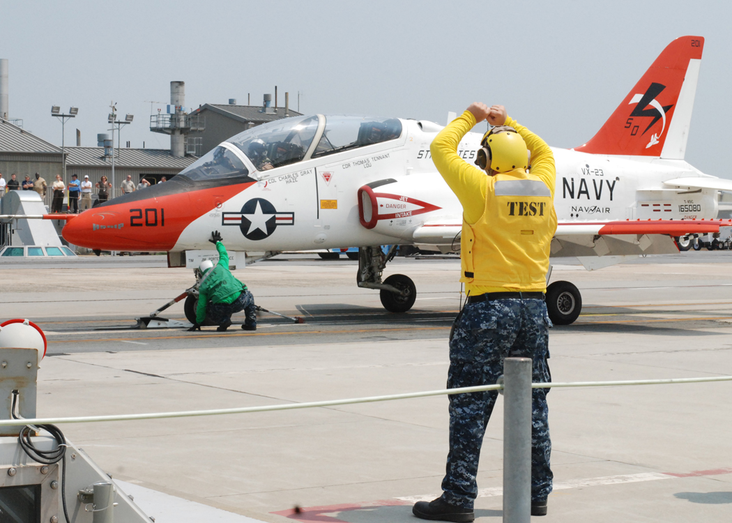 LAKEHURST, N.J. (June 1, 2011) Aviation Boatswain's Mate 3rd Class Dennis Lopez, left, secures a T-45C Goshawk to the Electromagnetic Aircraft Launch System (EMALS) shuttle while Aviation Boatswain's Mate 1st Class Richard Berger signals to the pilot, Lt. Cmdr. Raymond Bieze, from Air Test and Evaluation Squadron (VX) 23 at Naval Air Engineering Station, Lakehurst, N.J., for the first successful launch of a T-45C Goshawk. Twelve successful launches were made June 1 and 2 as part of the on-going aircraft compatibility testing. EMALS is a complete launch system designed for the Ford-class aircraft carriers and will replace the steam catapult system, which has been in use for more than 50 years. (U.S. Navy photo by Sherry Jacob/Released)